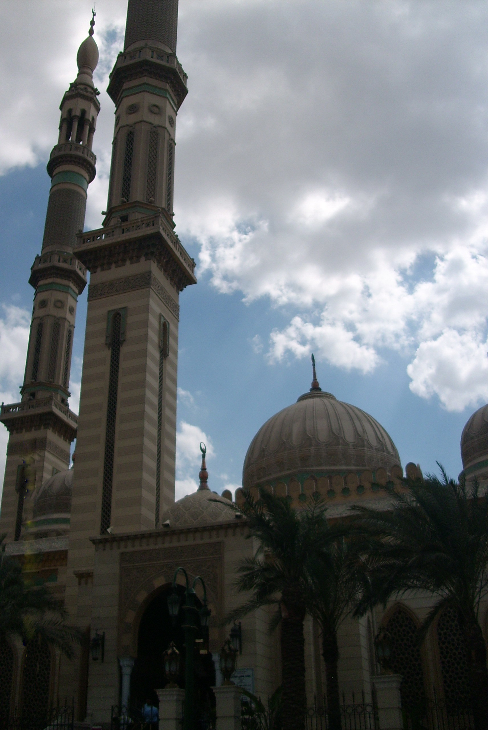 Al-Rahman al-Rahim Mosque, Abbasyia, Cairo